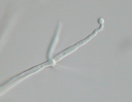 Photomicrograph of Tritirachium oryzae in Nomarski Differential Interference Contrast microscopy